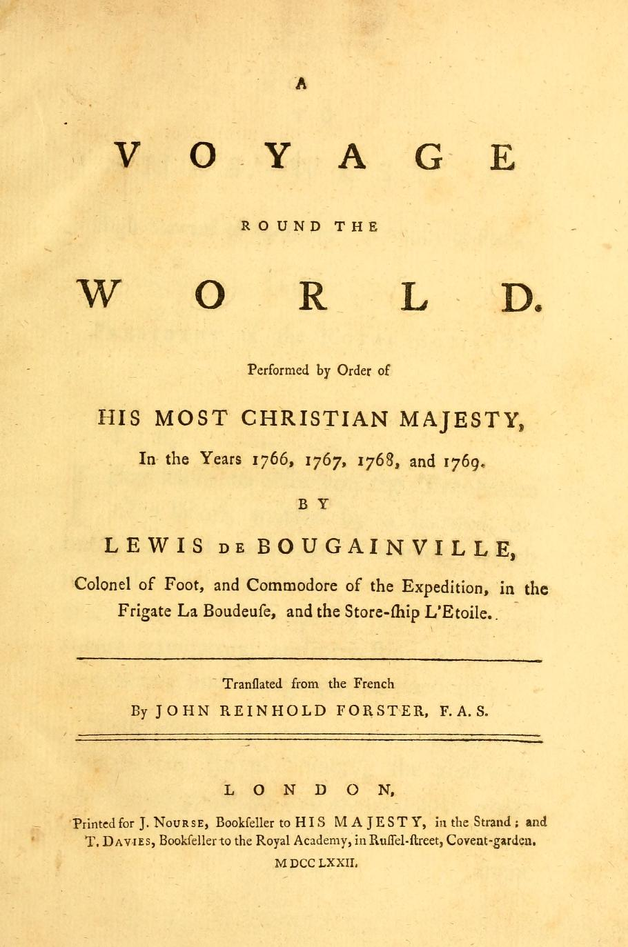 Cover of the English version of Bougainville's voyage around the world (1772).